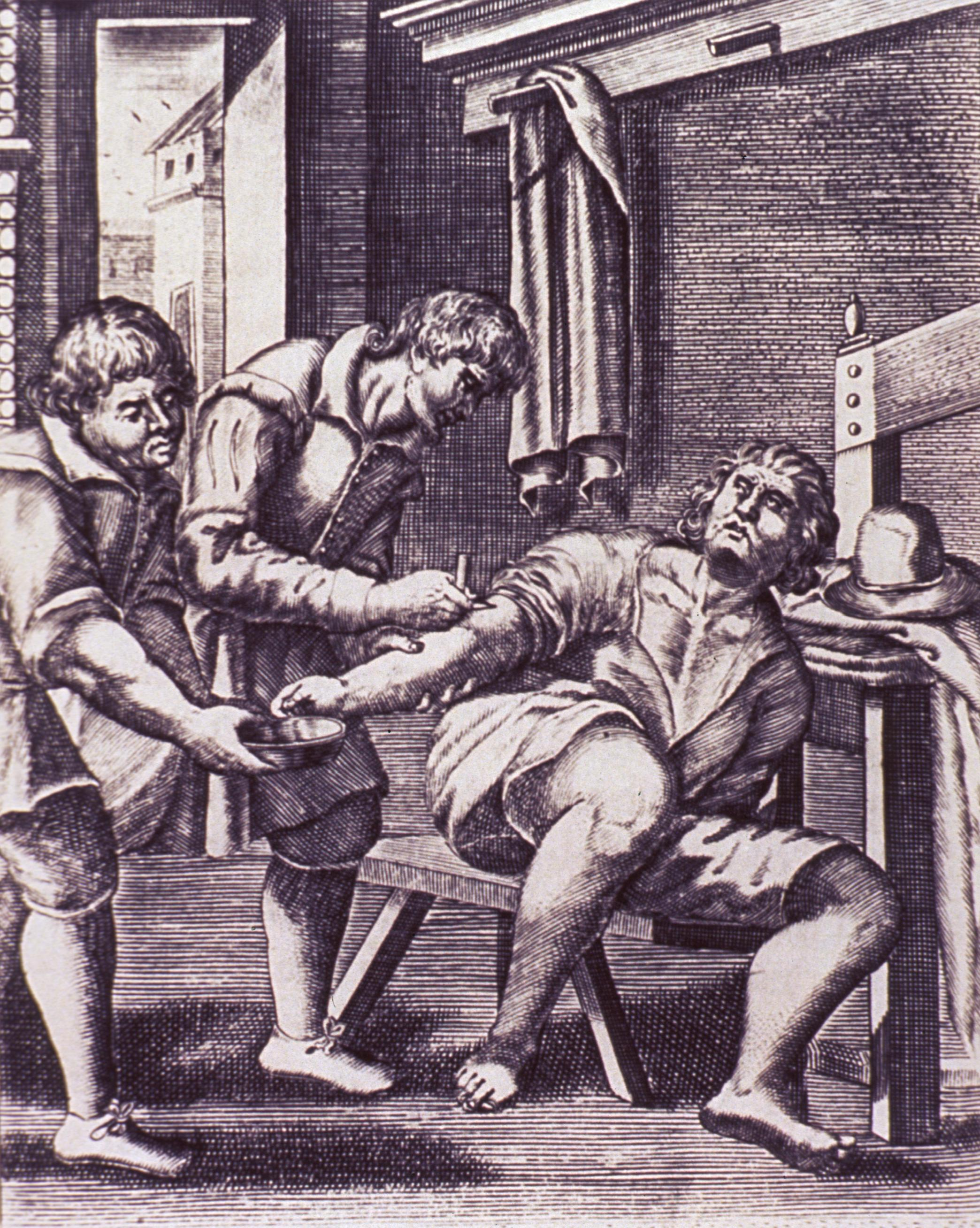 Author(s): Amato, Cintio d', 17th cent., author Publication: Napoli: Appresso Geronimo Fasulo, 1671 Language(s): Italian Format: Still image Subject(s): Surgical Instruments Genre(s): Book illustrations Abstract: A man, sitting on a bench, is having his right arm bled; the surgeon is applying the lancet, and an assistant is ready with a bowl. Related Title(s): Is part of: Nuova et utlilssima prattica di tutto quello ch'al diligente barbiero s'appartiene, opp. p. 51.; See related catalog record: 2302032R Extent: 1 print Technique: woodcut NLM Unique ID: 101448292 NLM Image ID: A030077 Permanent Link